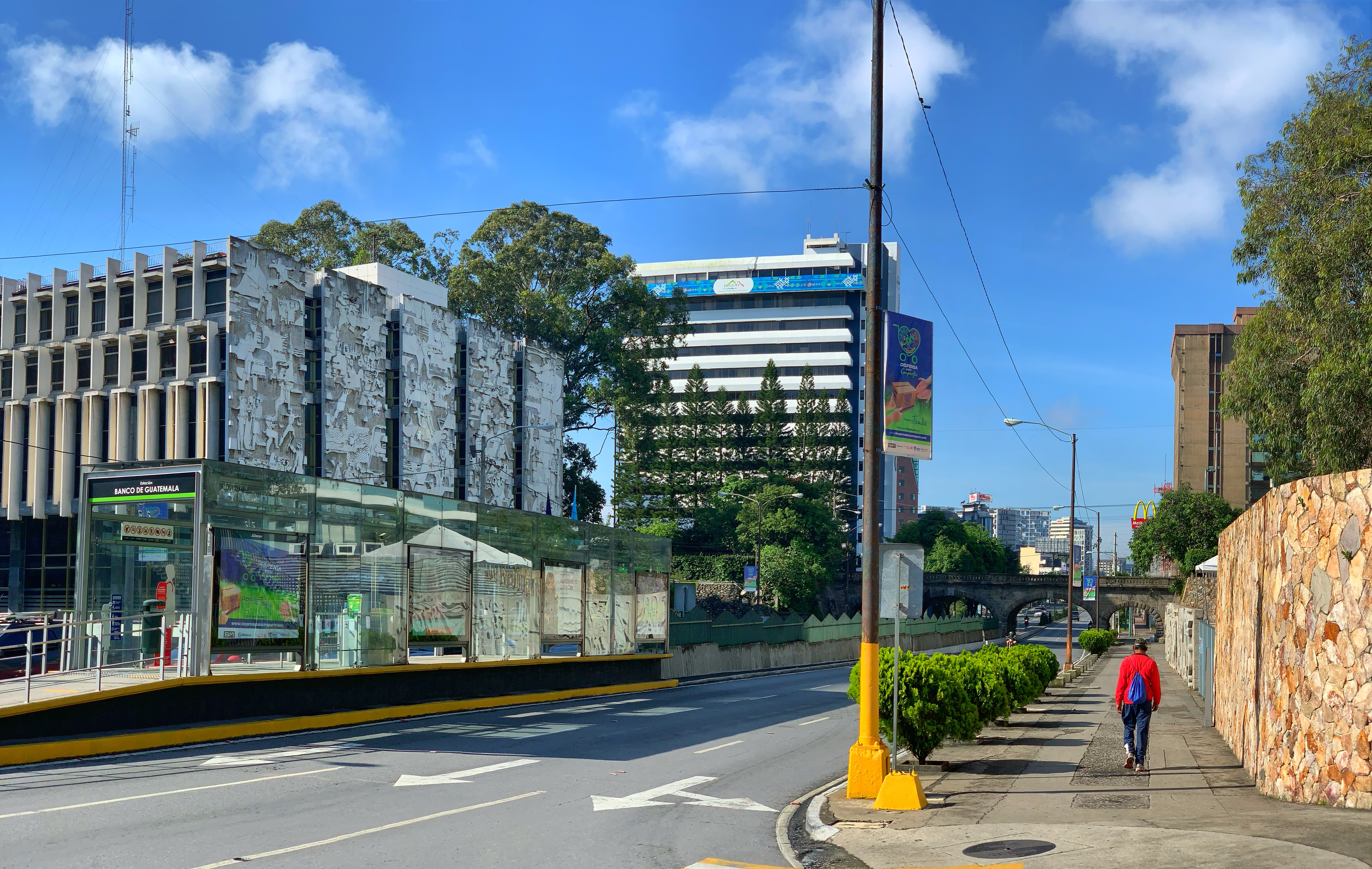 Banco de Guatemala, Transmetro Ciudad de Guatemala